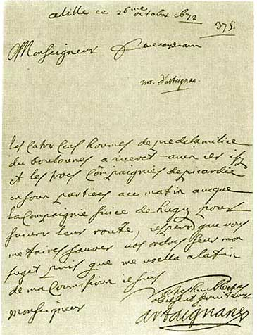 letter of d'artagnan with three mosquedogas